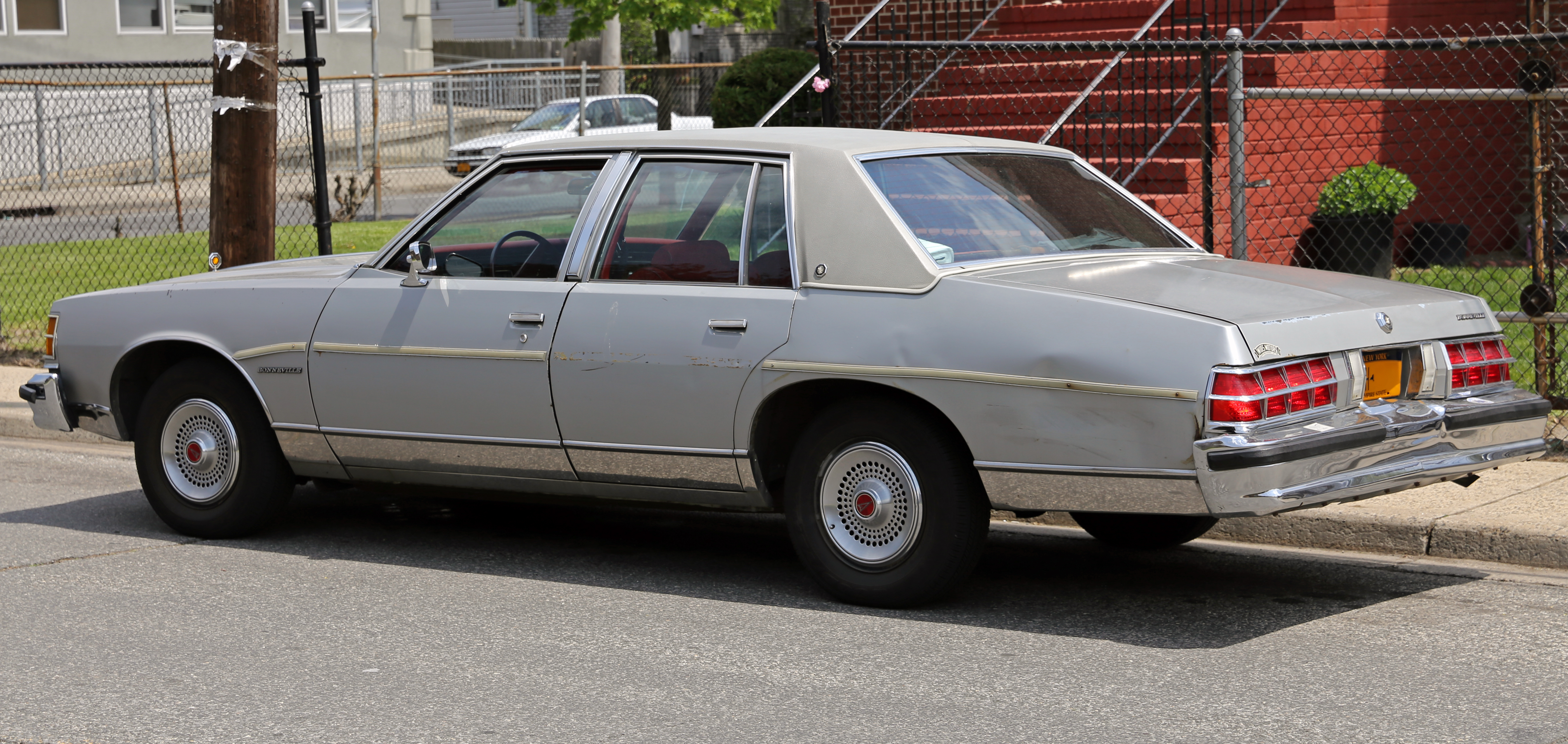 1978 Pontiac Bonneville with a 301ci V8 engine, built in Pontiac, MI. 135hp.